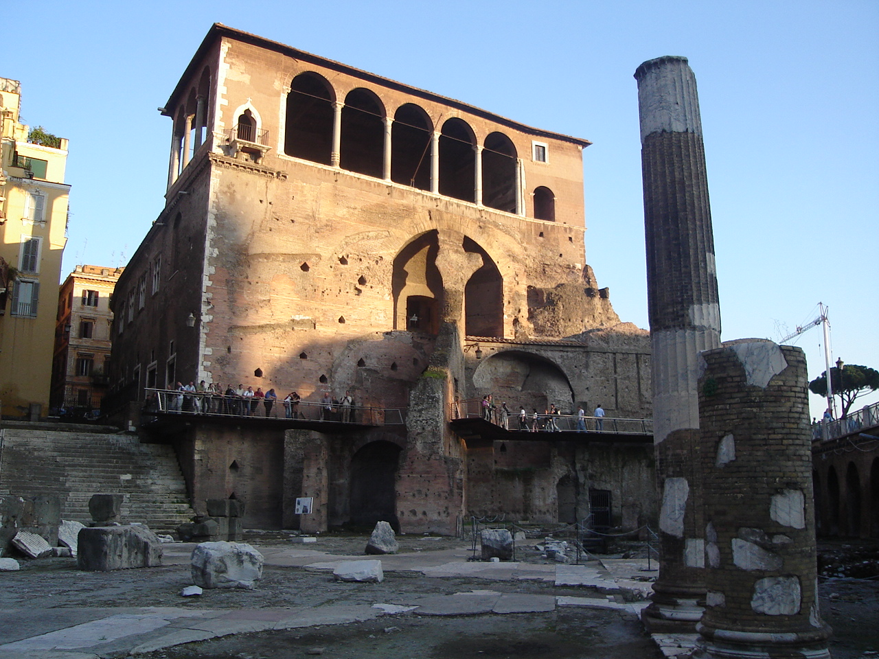 Domitian Terrace surmounted by the fifteenth century loggia of the Casa dei Cavalieri di Rodi, Trajan's Forum, Rome